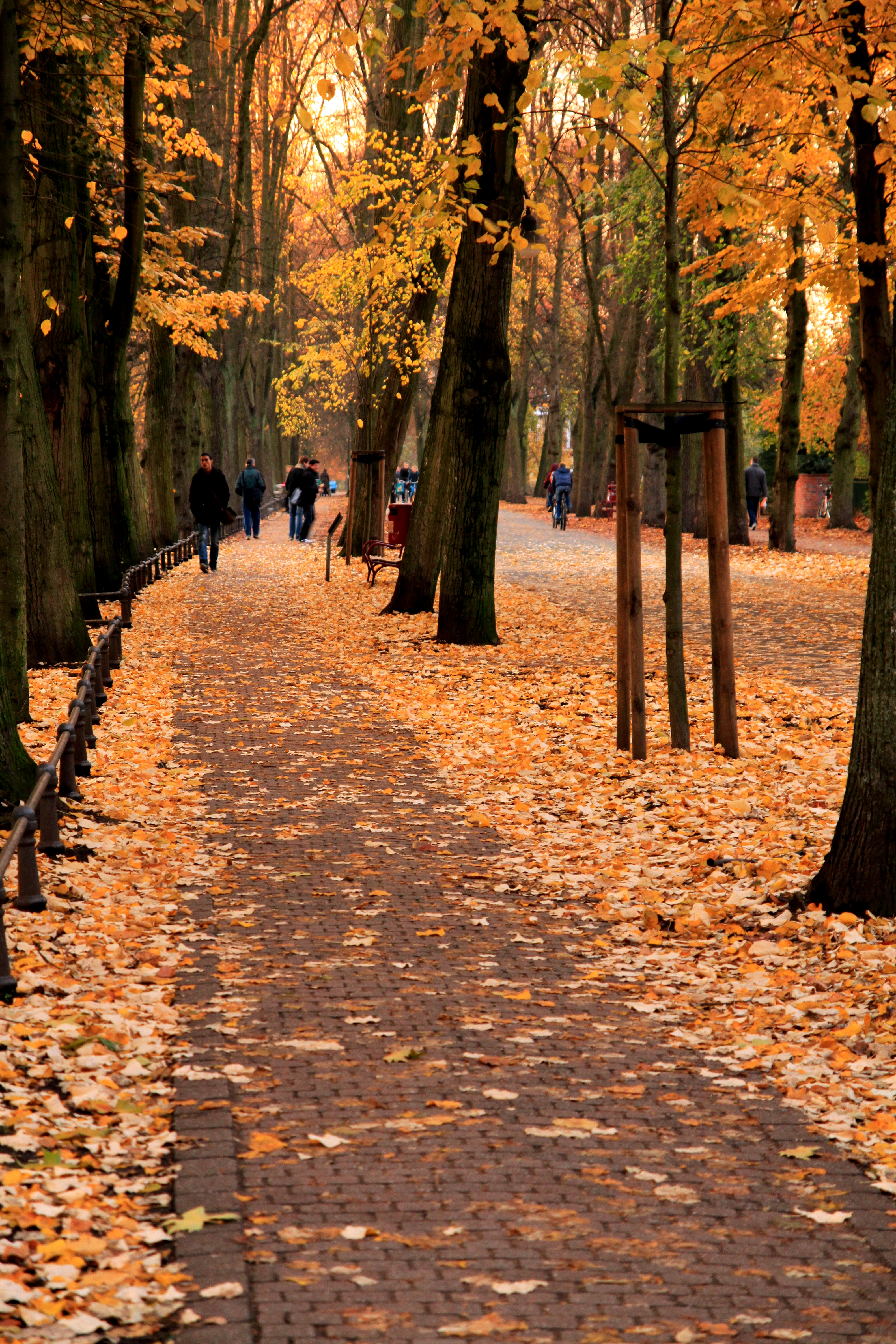 Promenade (Paseo)